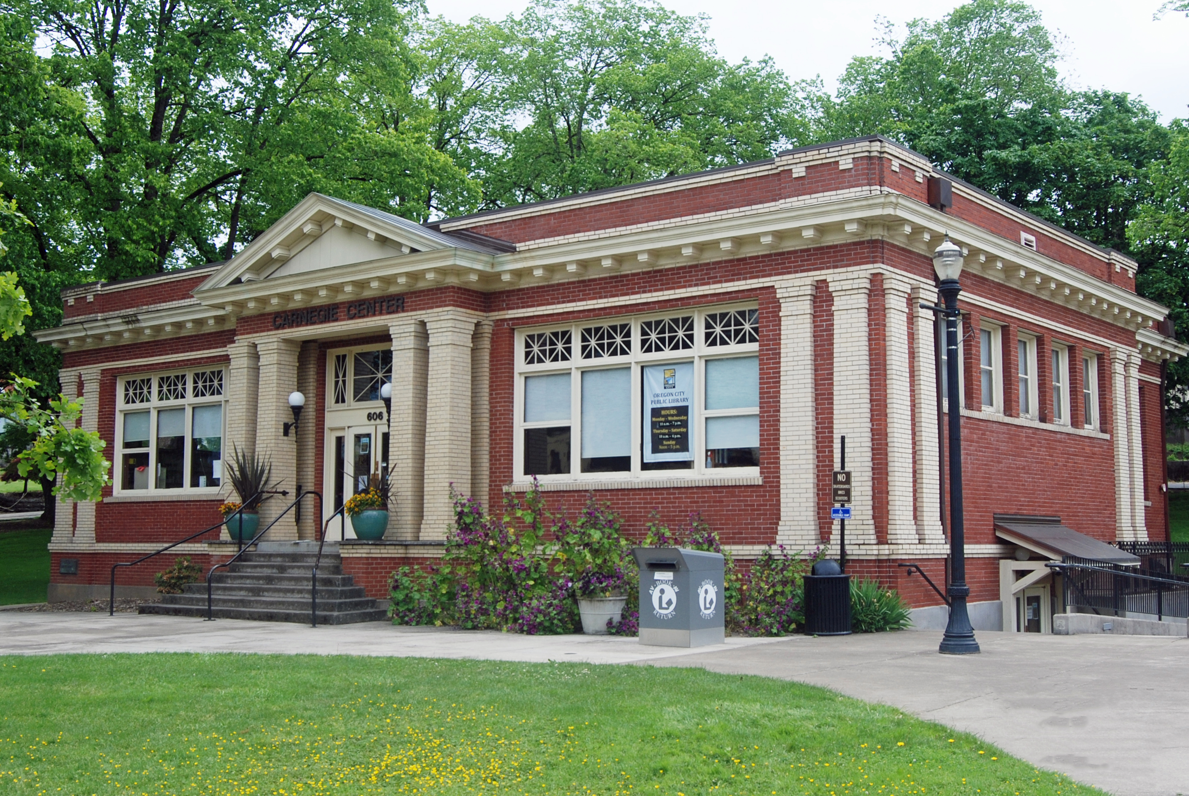 Historic Carnegie Library, Oregon City, Oregon. Built in 1912–1913, the building has served as Oregon City's public library from 1913 to 1995 and again since 2010.